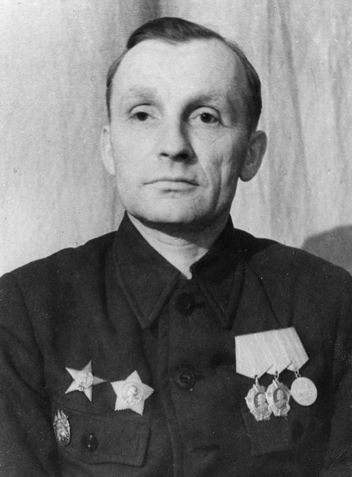 Hero of Socialist Labor Georgy Semyonovich Shpagin